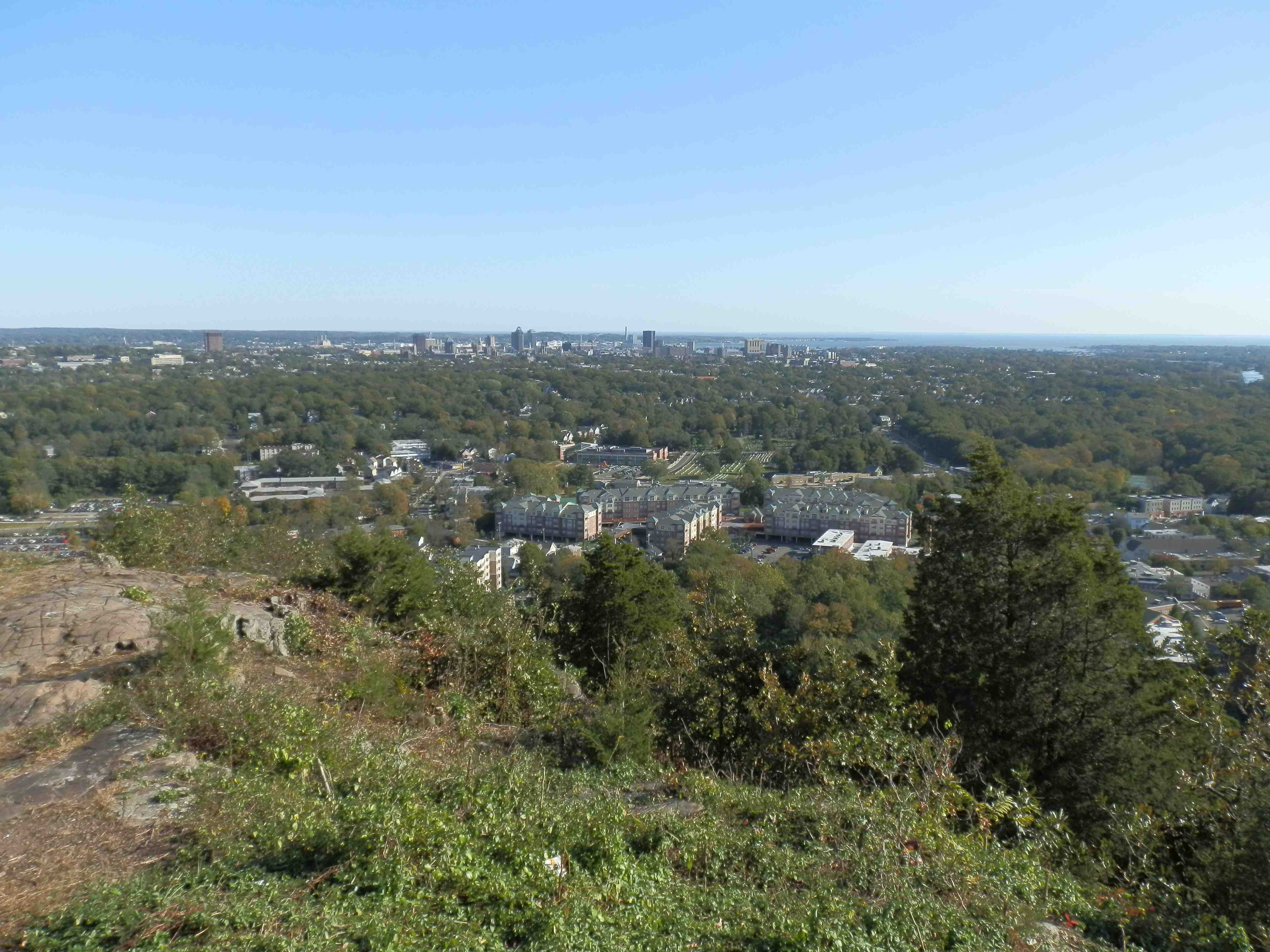 This is a view of New Haven and New Haven Harbor from the South Overlook at West Rock Ridge State Park in New Haven, Conn.